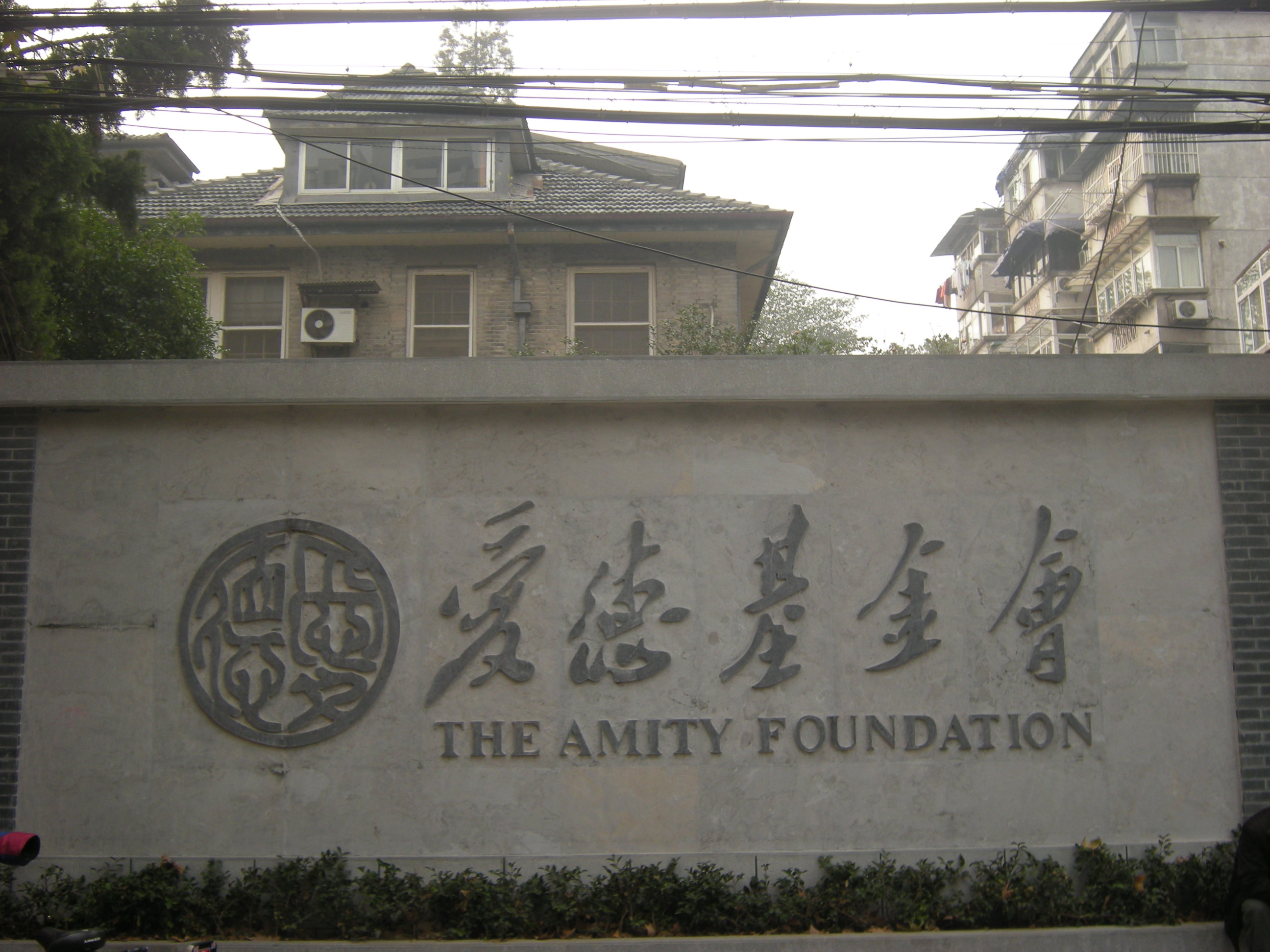 The Amity Foundation in Nanjing, Jiangsu Province 位于江苏省南京市的爱德基金会